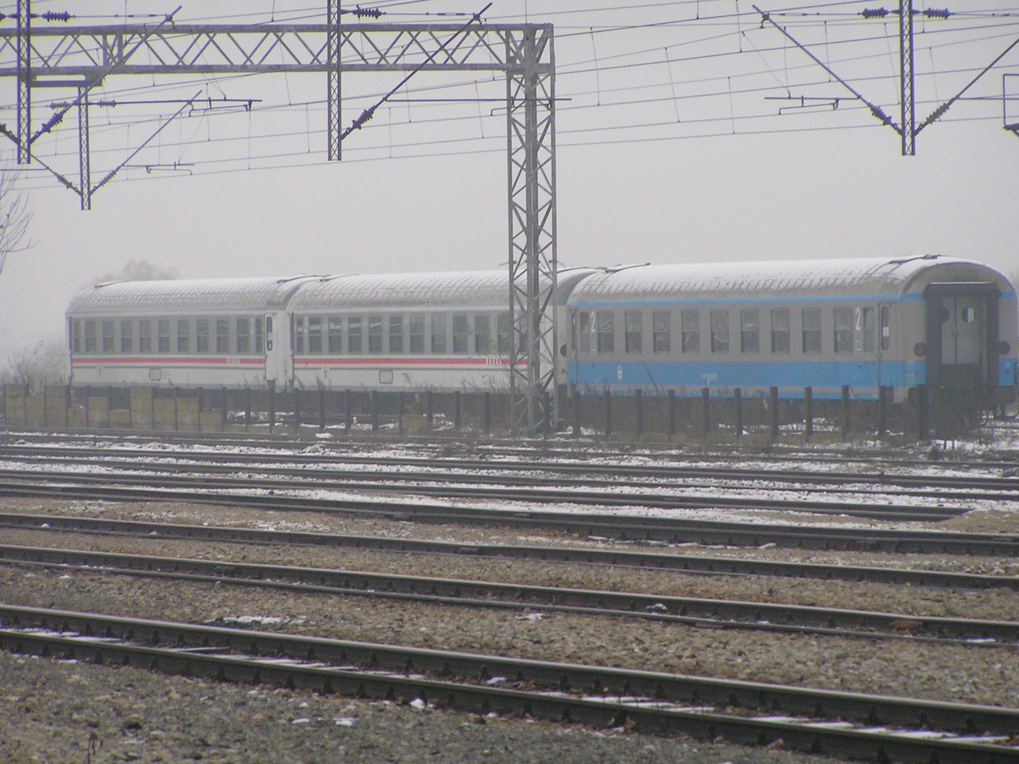 Three croatian passenger cars in consist